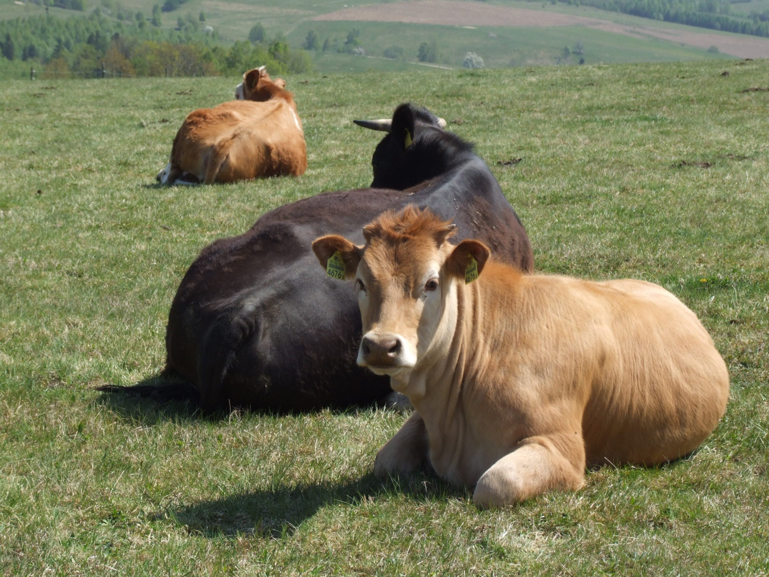 Cows in polish mountain (Masyw Śnieżnika, Glatzer Schneegebirge) near town Międzylesie (Mittelwalde)